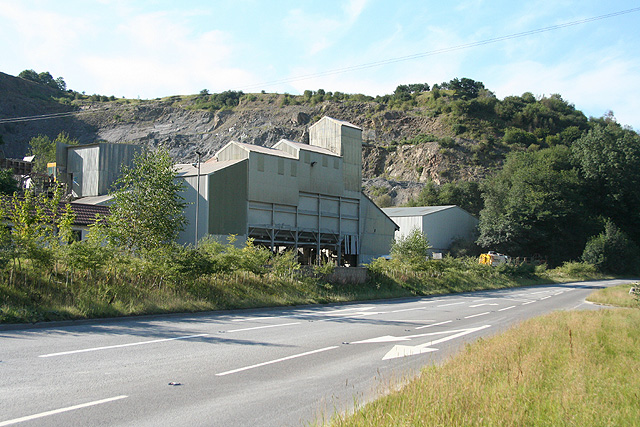 Brayford: Brayford quarry By the A399 road to Blackmoor Gate and Combe Martin. The quarry is run by Hanson as is its neighbour Barton Wood quarry, nearby